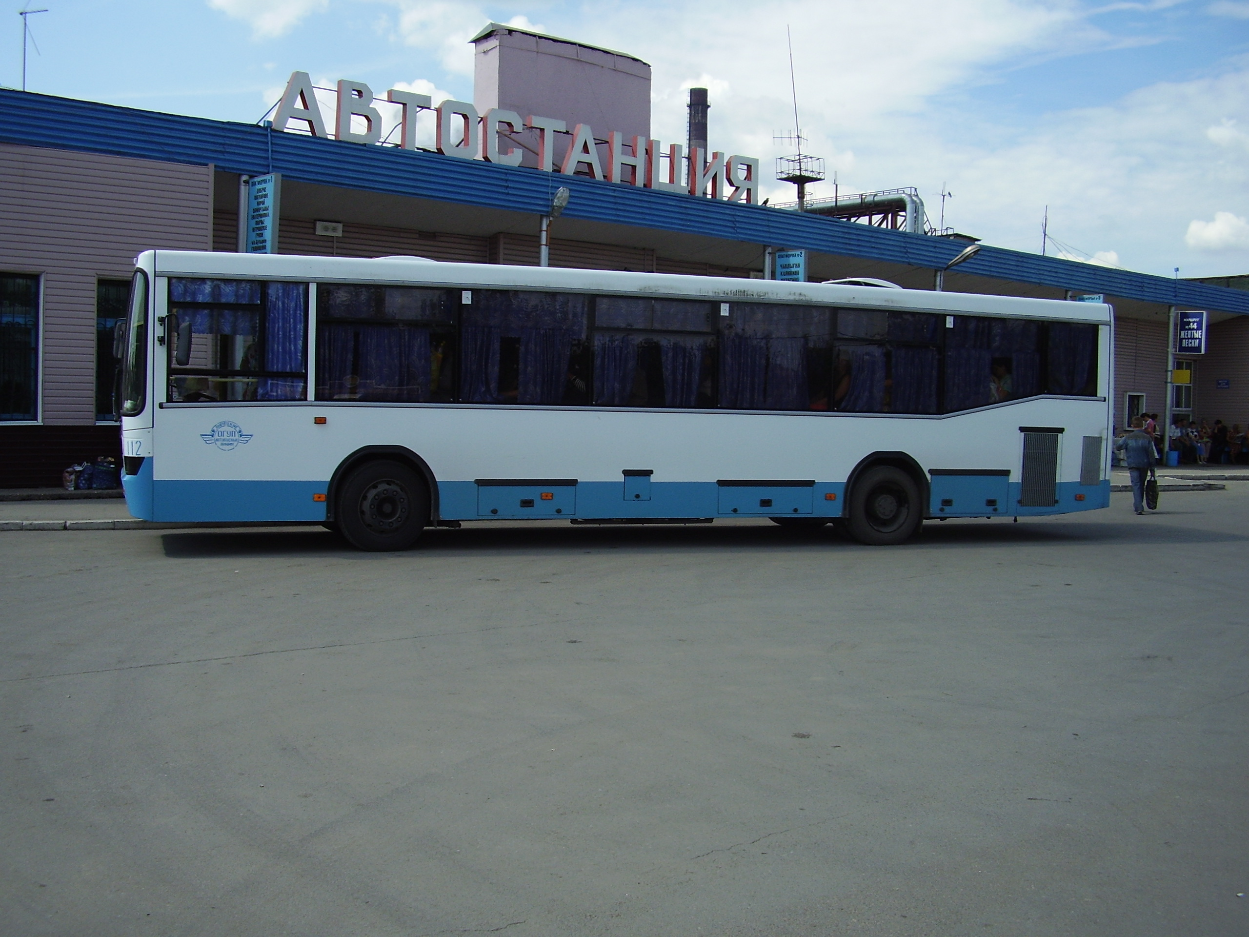 NefAZ bus (#112) on Lipetsk's Sokol'skaya Station, Russia.